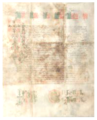 Gramata - decree of blesing - by the Russian Emperor Peter the Great sent to Montenegrins 1711.